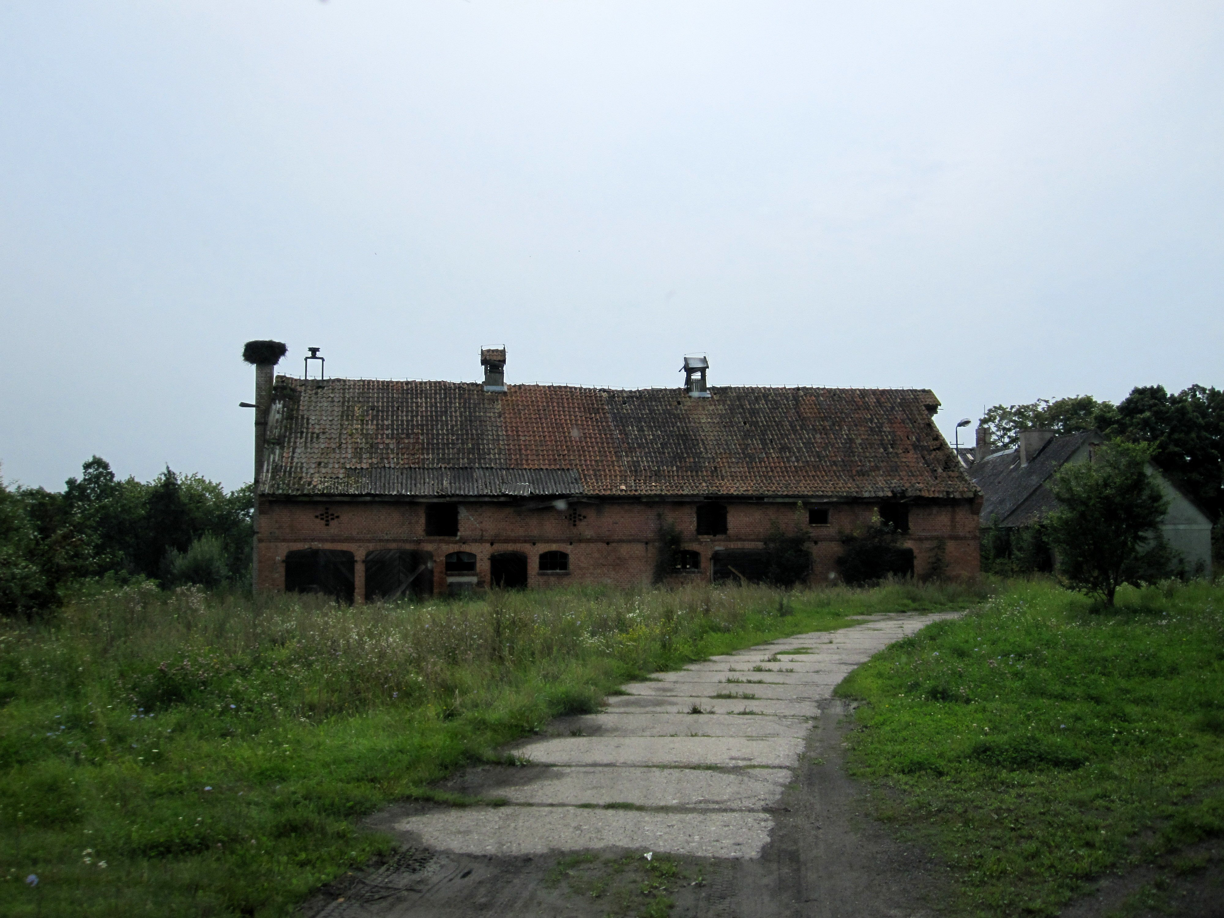 Manor in Kozarek Wielki